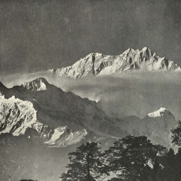 Sunset on Kinchenjunga